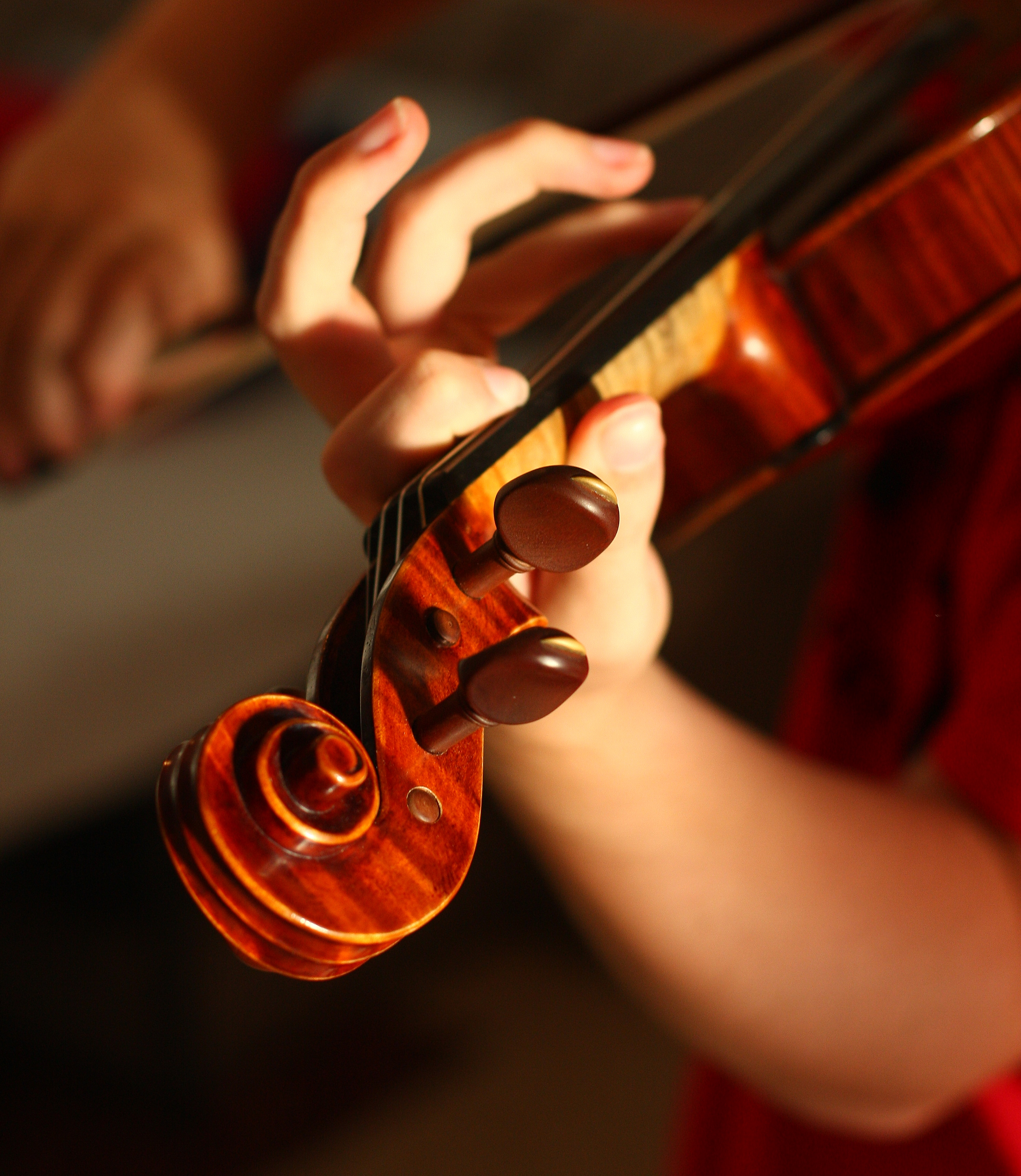 Violin playing showing dexterity of fingers